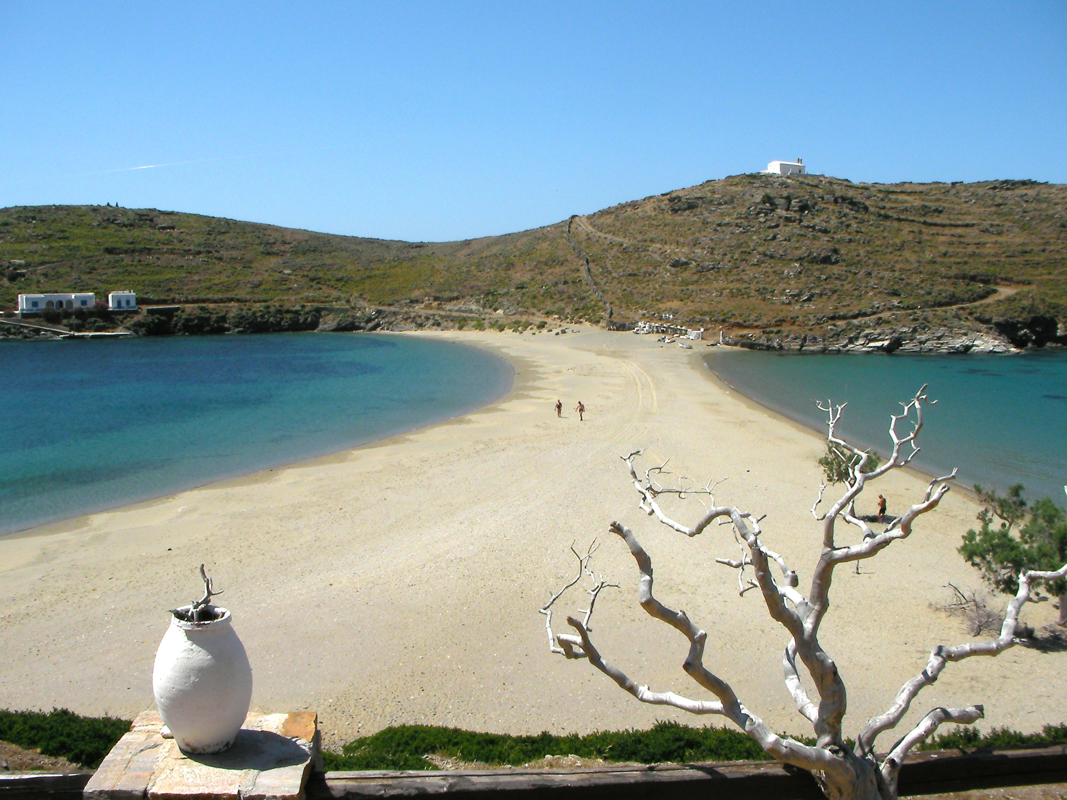 View of the tombolo leading to Agios Loukas in NW Kythnos